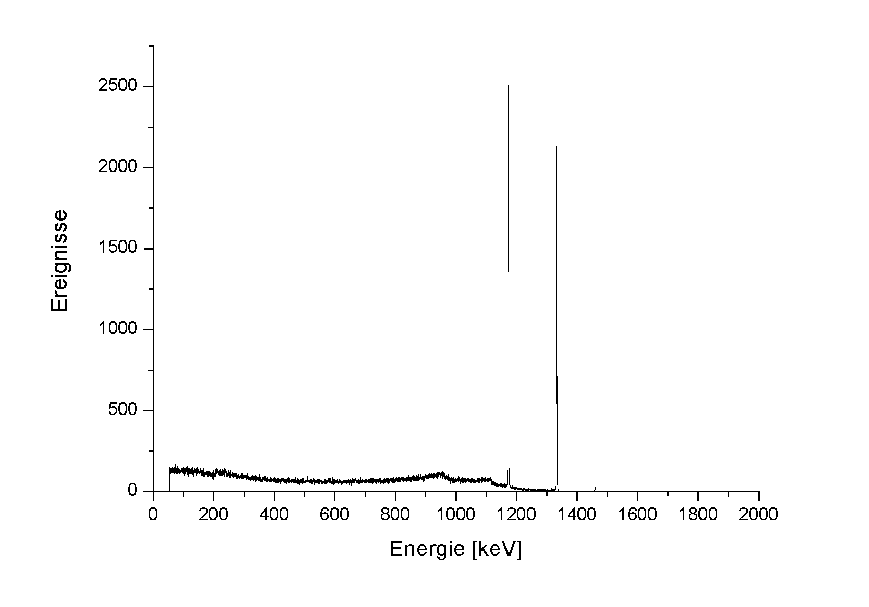 Gamma spectrum of 60Co, observed with a germanium detector. x-axis gauged to energy, designation in German.